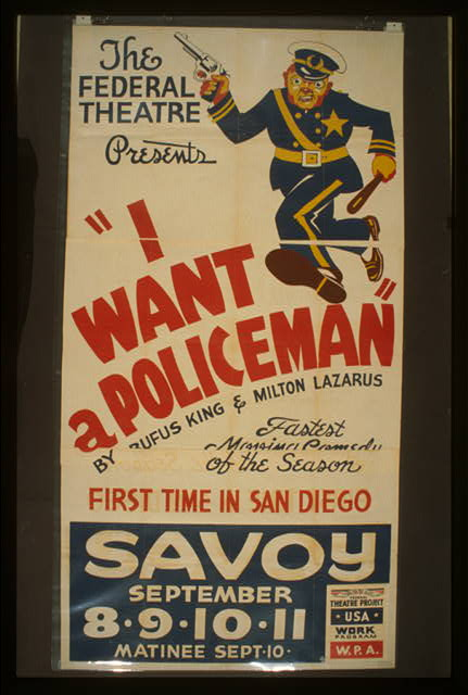 Poster for Federal Theatre Project presentation of "I Want a Policeman" at the Savoy Theatre, showing a policeman running with gun drawn and carrying a baton.